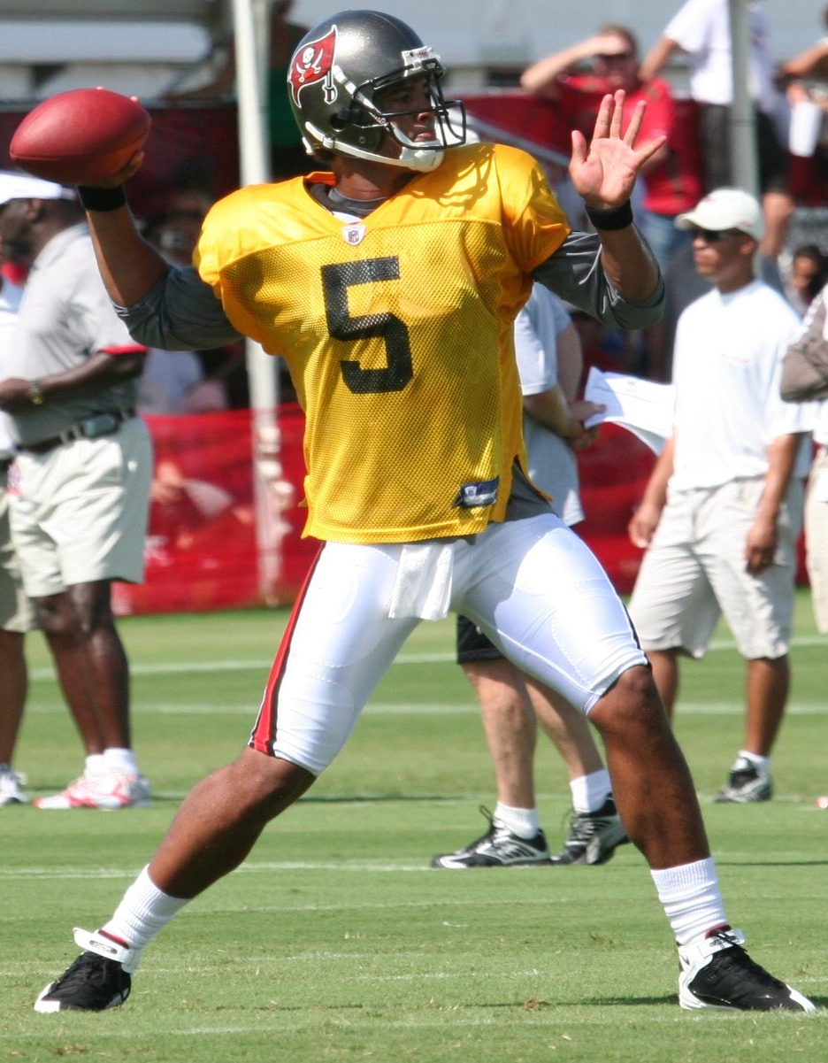 Josh Freeman in training camp in 2009.